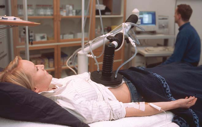 This image describes a local hyperthermia therapy in the Hyperthermia Centre Hannover of Dr med Peter Wolf. The image may be used within the Creative Common license granted by Dr med Peter Wolf. The image can be found in the book: Innovations in biological cancer therapy, a guide for patients and their relatives, Dr med Peter Wolf, Naturasanitas 2008, ISBN 978-3-9812416-1-7, page 33.